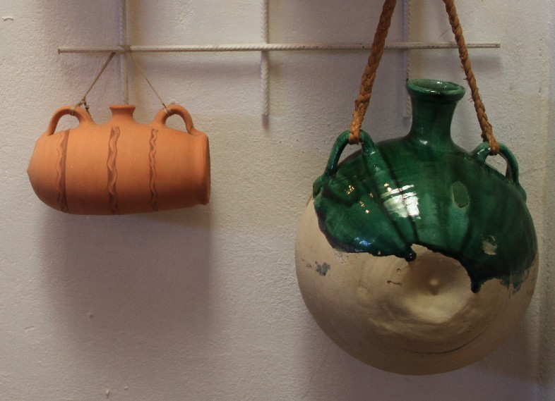 Spanish pottery canteens.